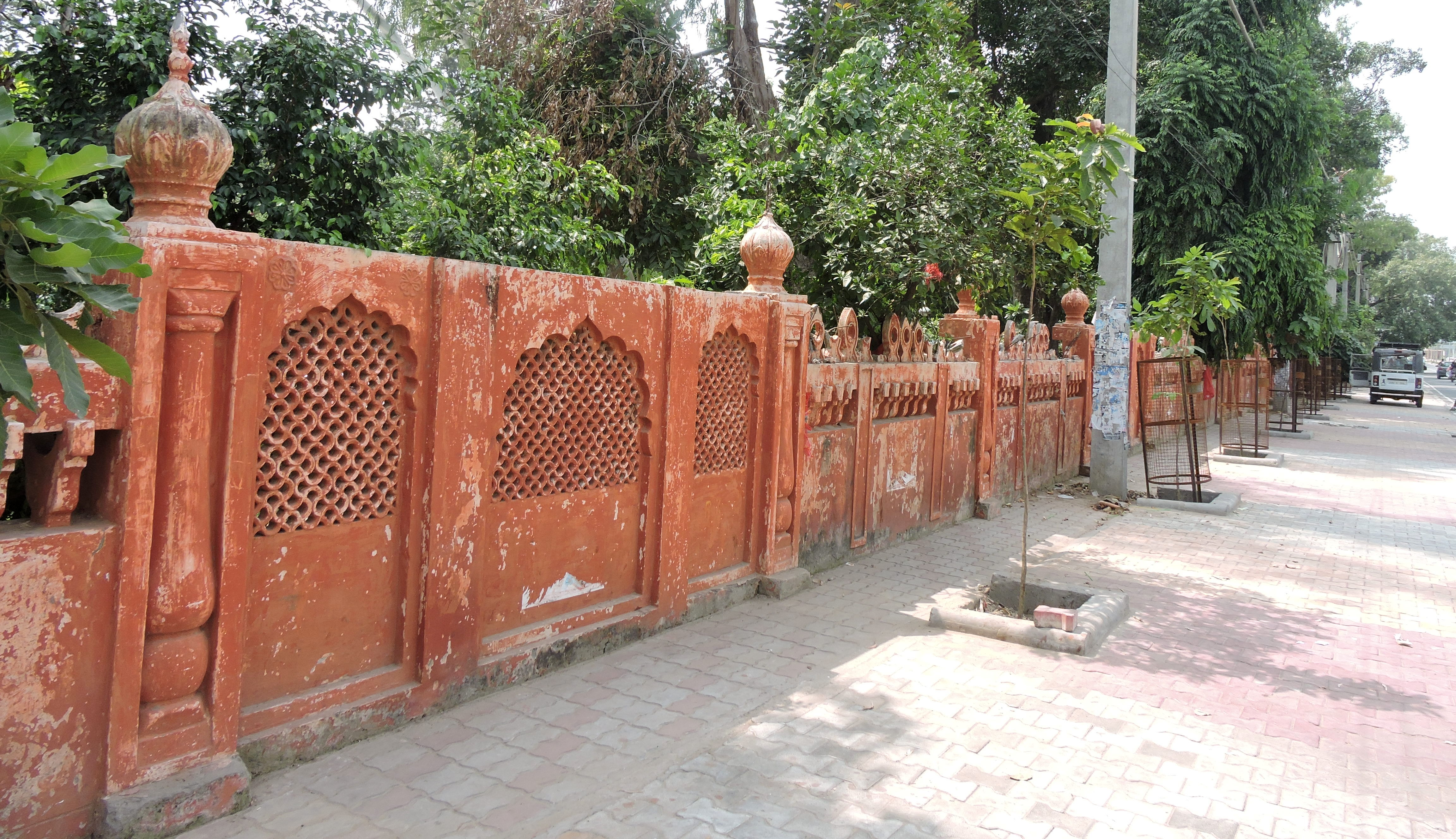 Ram Bagh Road , Amritsar, Punjab,India